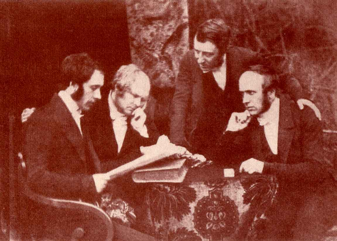 One of a series of photographs taken by the pioneers of photography David Octavius Hill and Robert Adamson (photographer) as preparatory work for a painting by David Octavius Hill (died 1870) of the Disruption of 1843 which formed the Free Church of Scotland.